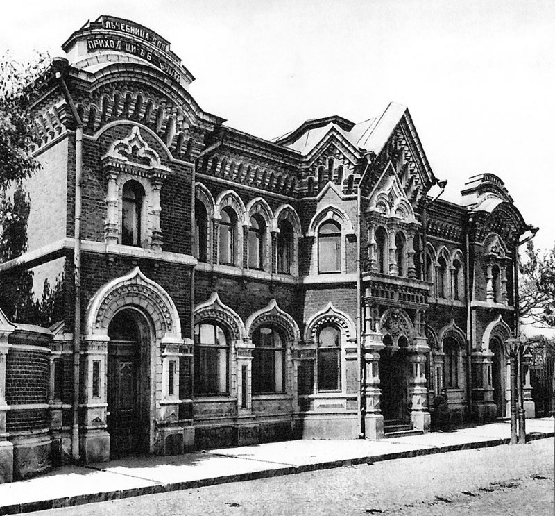 90. L. N. Sumbul outpatient clinic (present-day Food Service Museum) in Rogozhsky Lane, Moscow. Built 1903.See also 2007 photo: Image:Moscow, Bolshoy Rogozhsky 17.jpg.